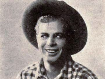 Still from the American western film Red Courage (1921) with Hoot Gibson, on page 67 of the October 1, 1921 Exhibitors Herald.